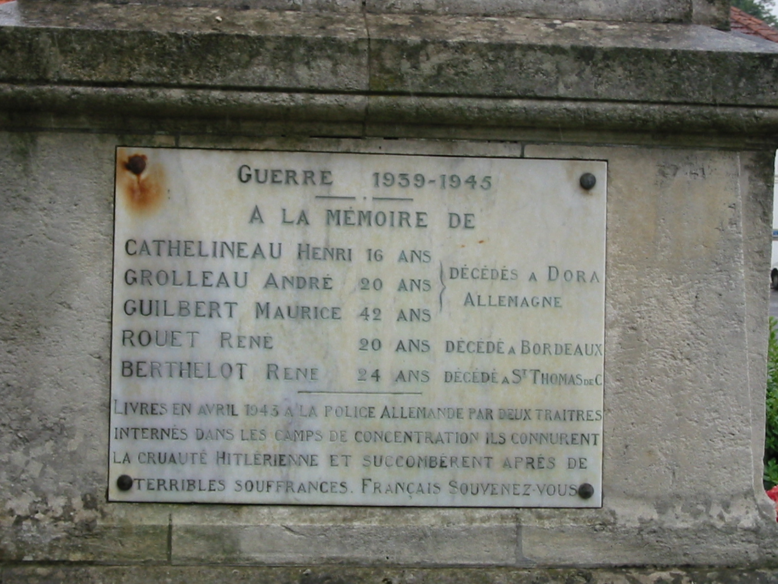 First and second world war monument of Saint thomas de conac